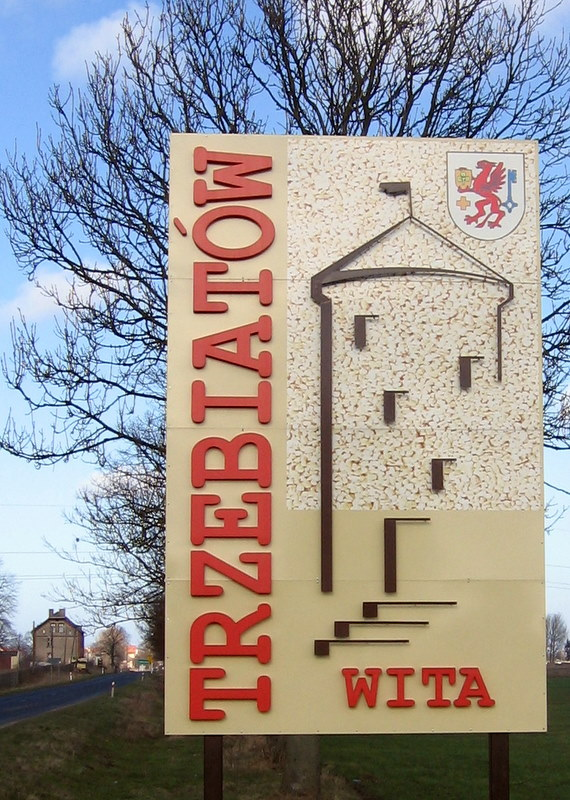 Welcoming board in Trzebiatów town.